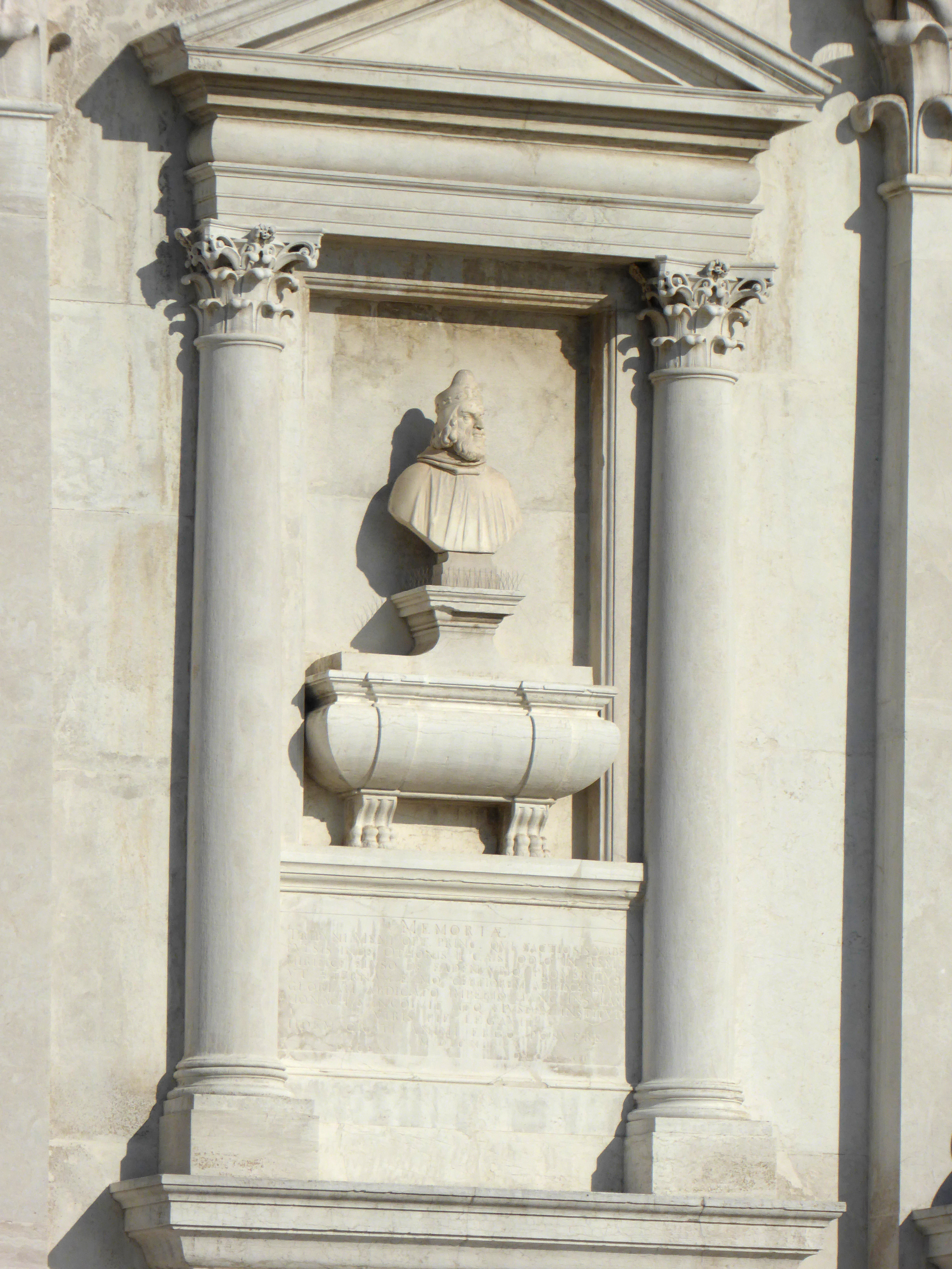 Basilica di San Giorgio Maggiore (Venice) - Facade